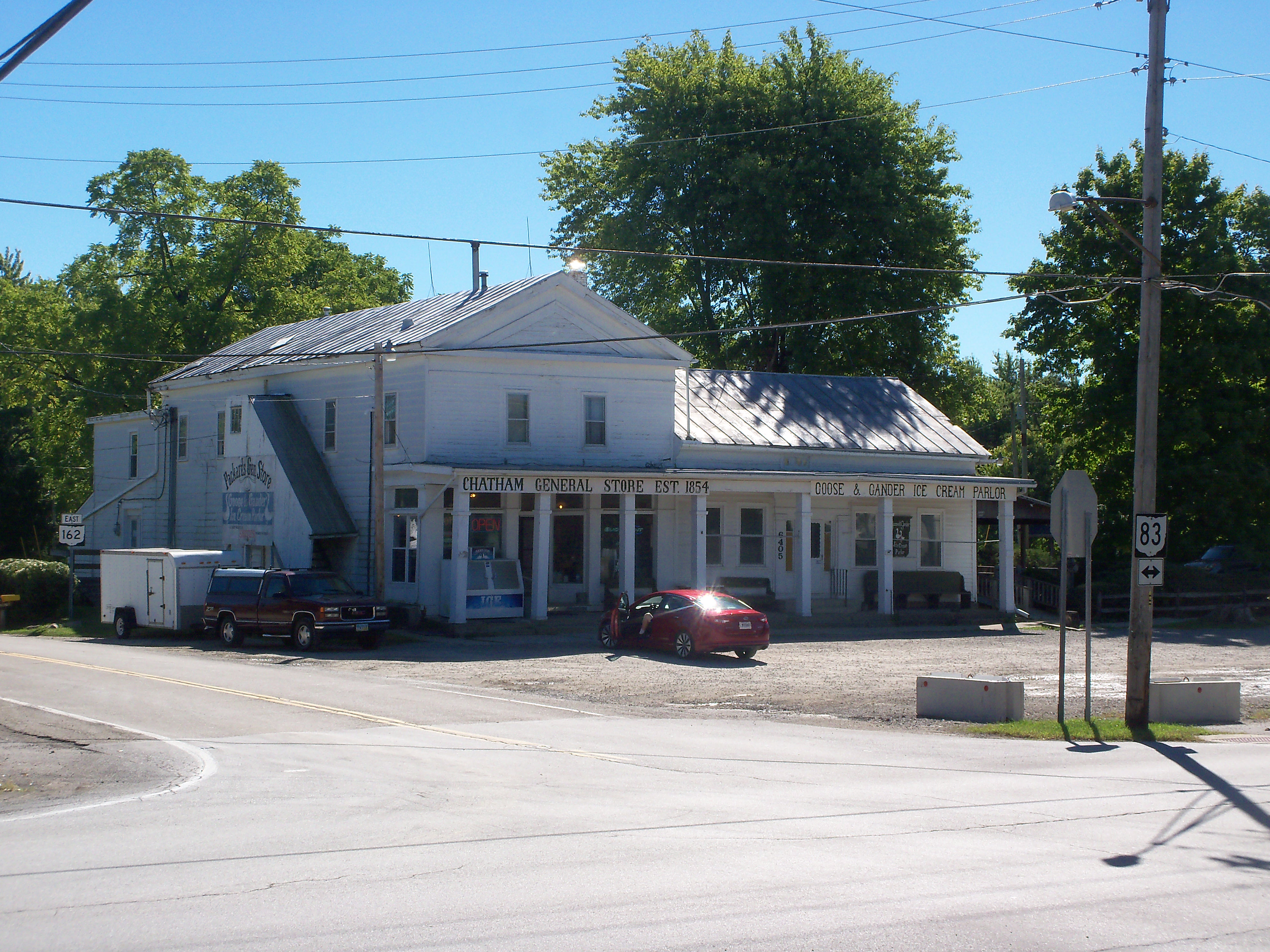 Chatham Ohio business established 1854